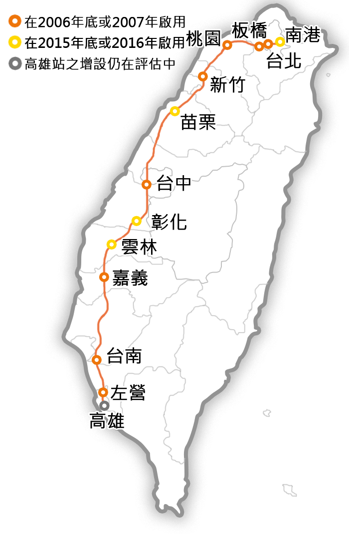 Map of Taiwan High Speed Rail